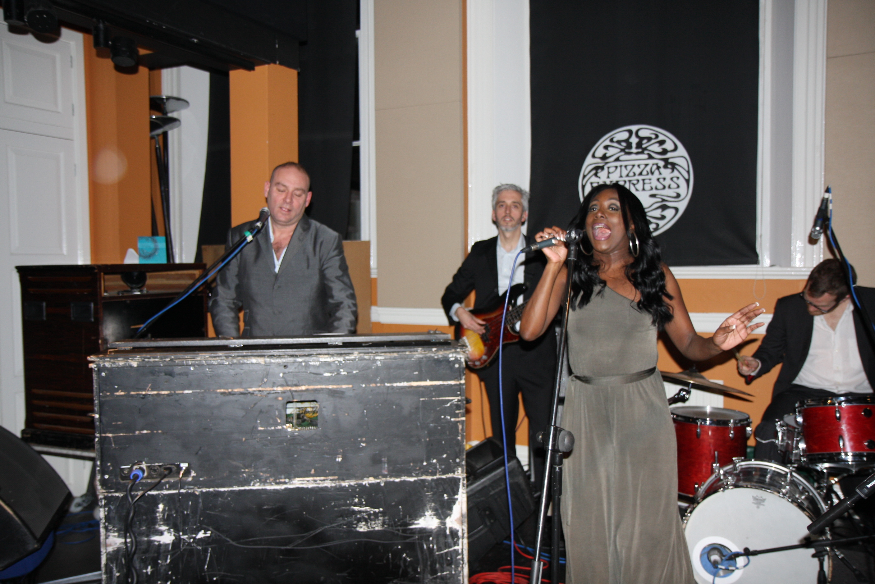 The James Taylor Quartet (JTQ) at the Maidstone Pizza Express. 22nd December 2010 They were great. Don't miss a chance to see them.